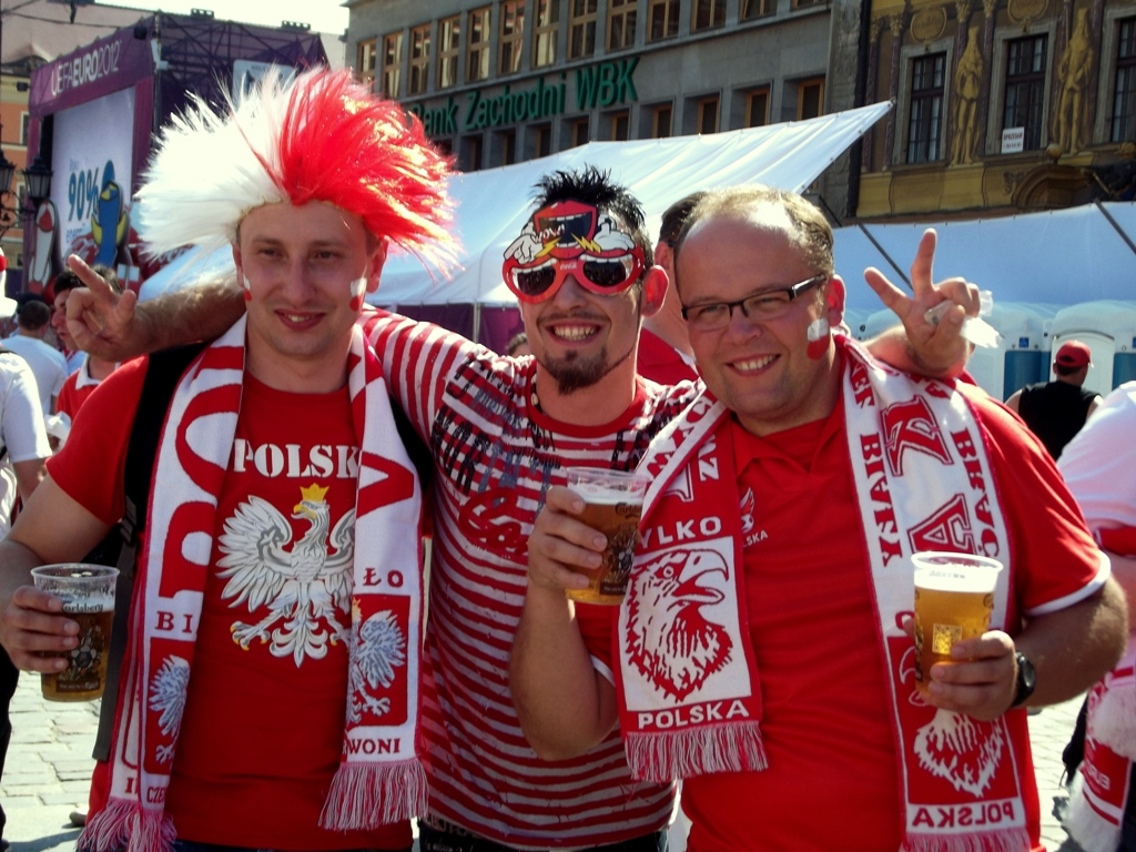 Polish fans in Wrocław, before Czech Republic - Poland, UEFA Euro 2012.